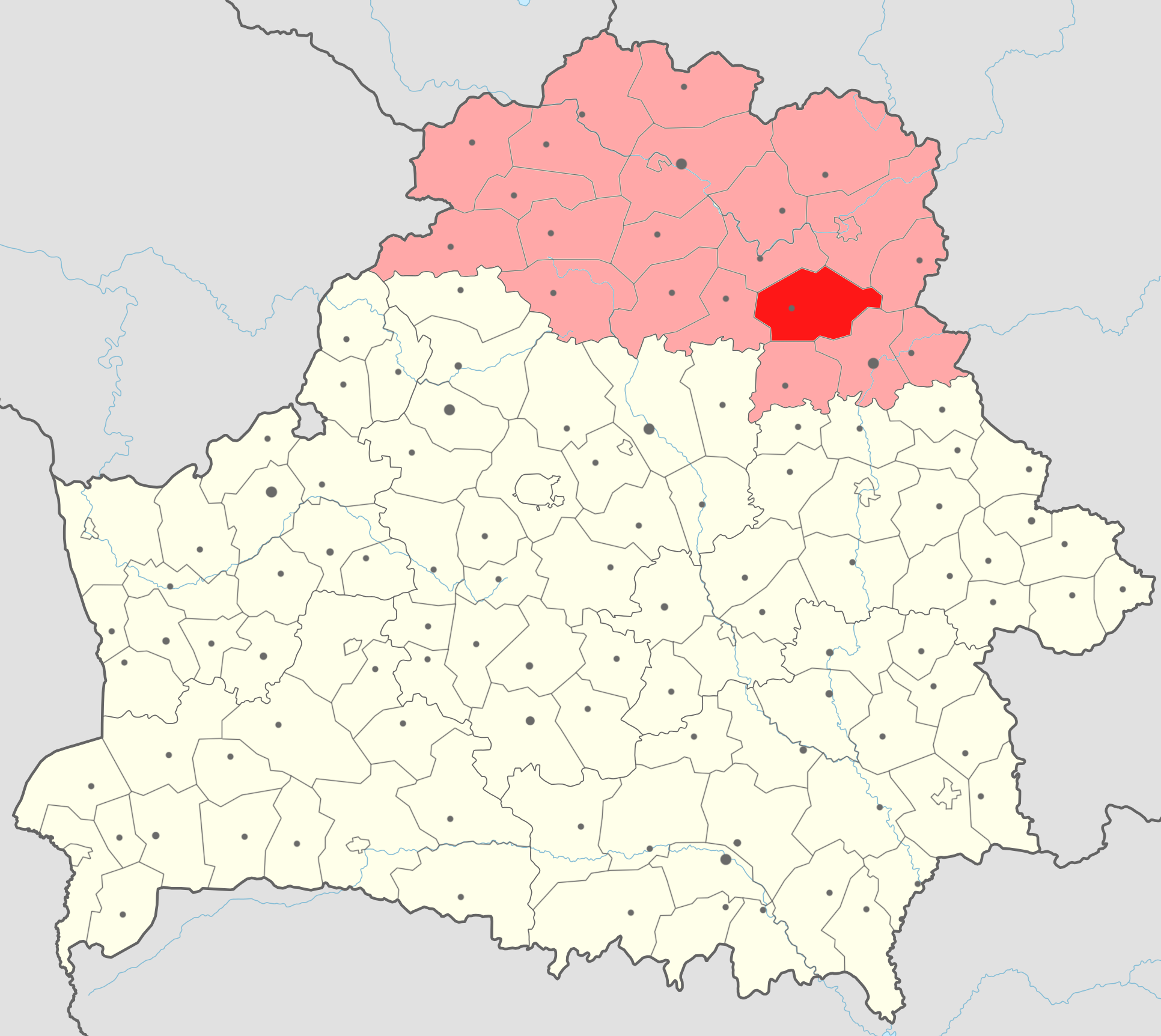 Map of Siennienski raion (in red) with Viciebskaja voblast' (in light red) on the map of Belarus.